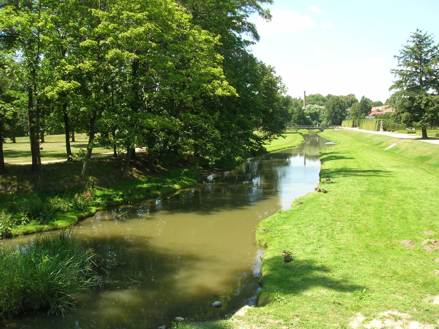 Rokytná river. Jaroměřice nad Rokytnou castle park